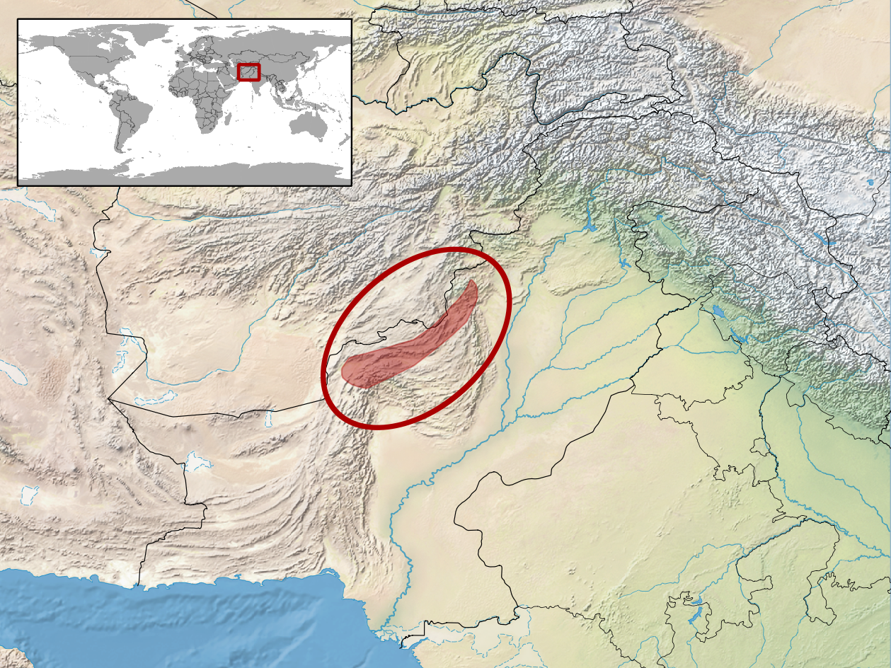 geographic distribution of Cyrtopodion kohsulaimanai (Native: Pakistan)